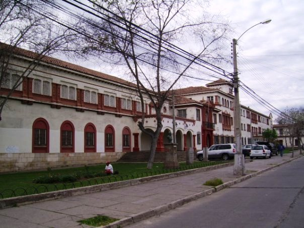 Perspectiva del Liceo Gregorio Cordovez